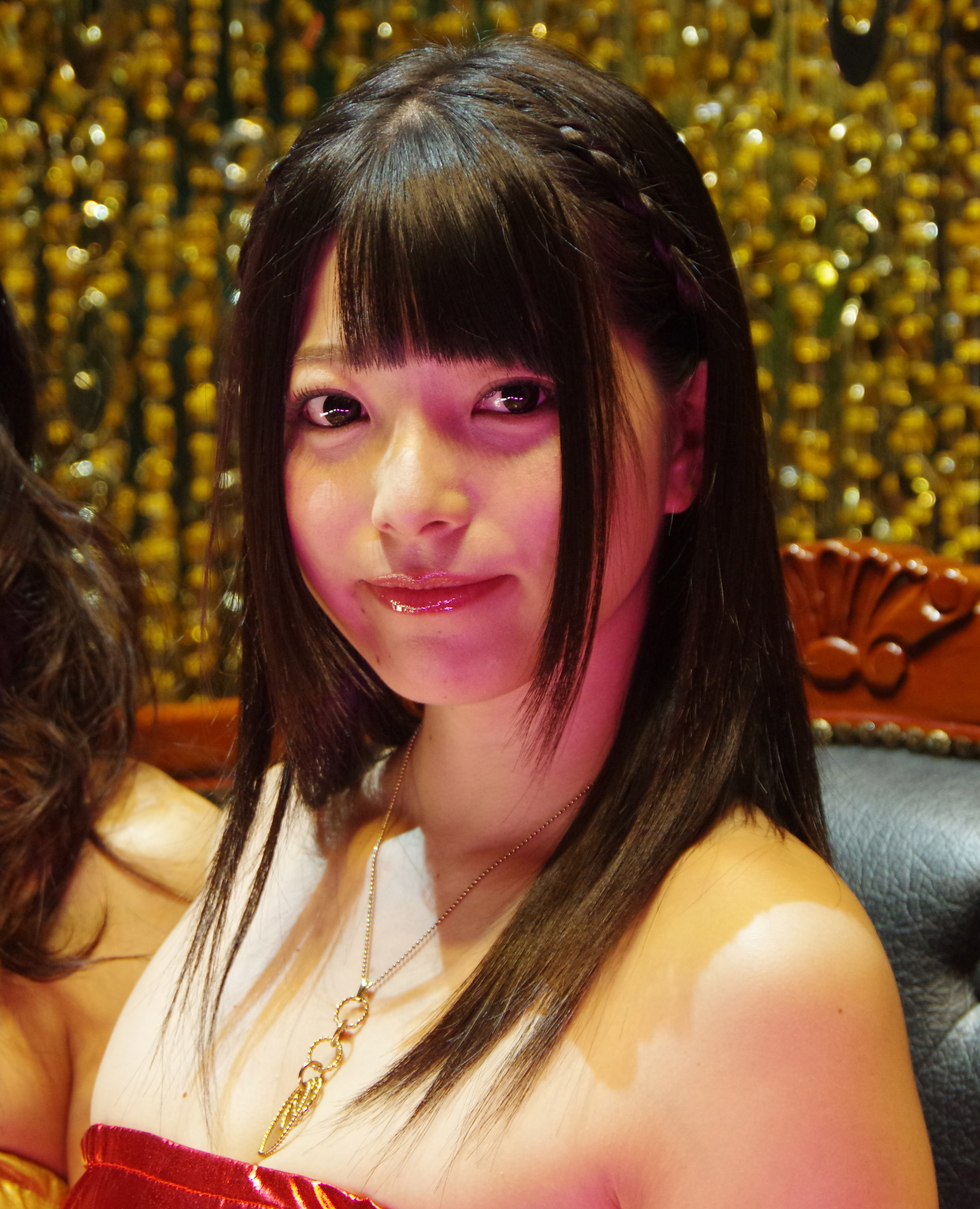 Ai Uehara at Tokyo Game Show 2014